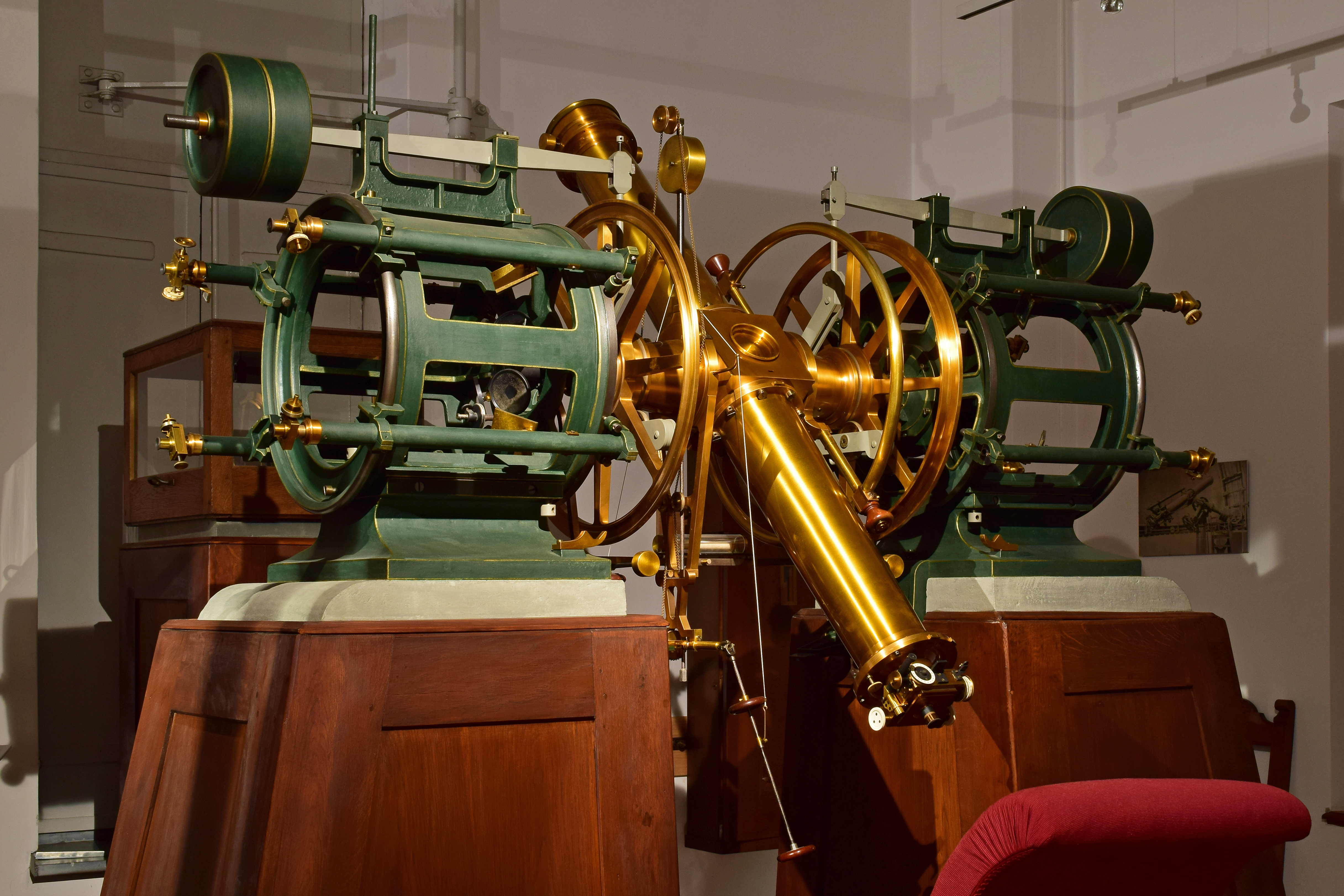 The Meridian circle of the Kuffner Observatory in Vienna was built 1884-1886 by Repsold & Söhne (Hamburg), optics by Steinheil & Söhne (Munich). It was the biggest Meridian circle in the Habsburg Monarchy, and so it is one of the largest in Europe. Using this Median circle was mainly 1890-1904 as part of the Zone program of Astronomische Gesellschaft.